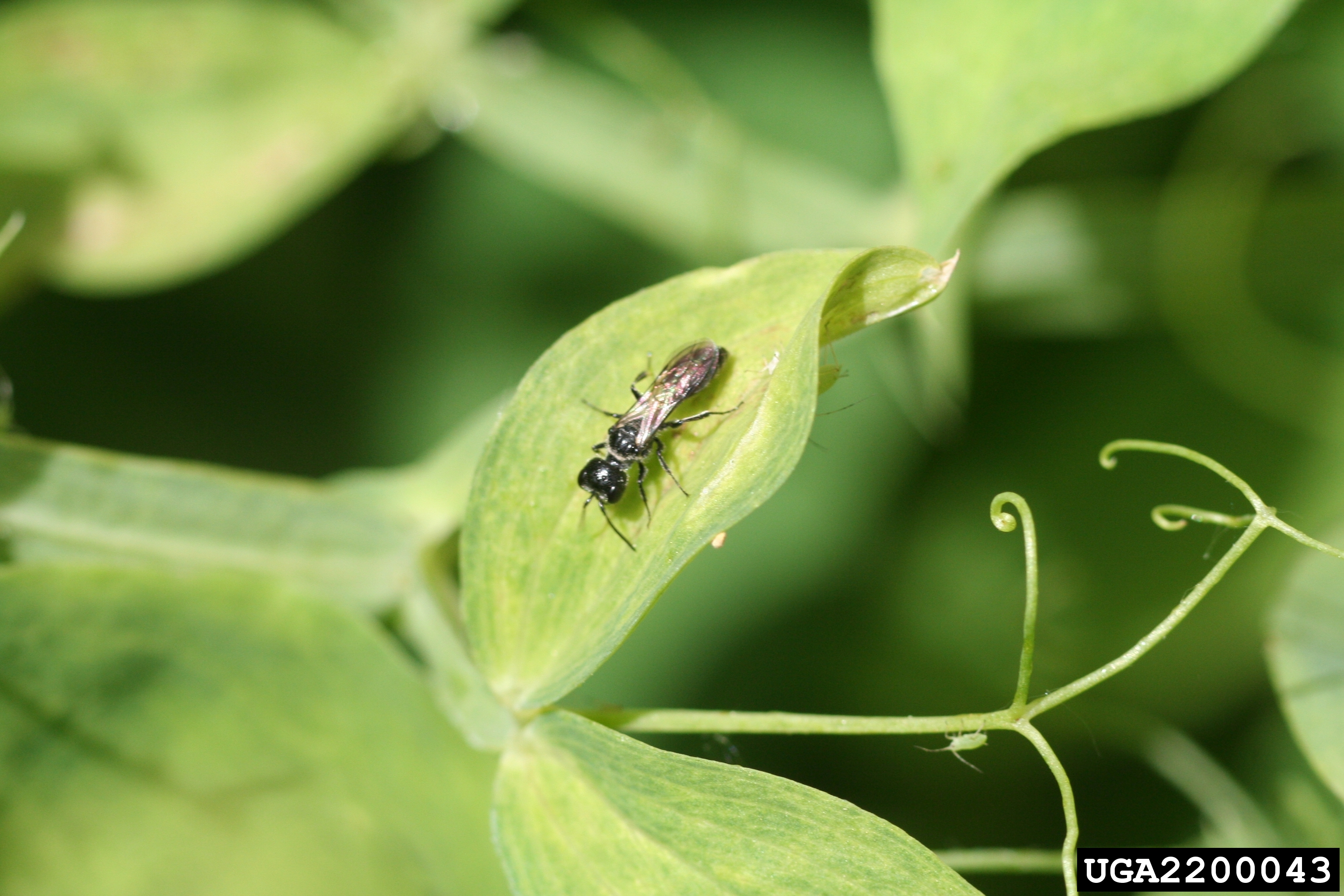 Pemphredon sp. Adult resting on sweet pea leaf. Fort Collins, Colorado, United States.